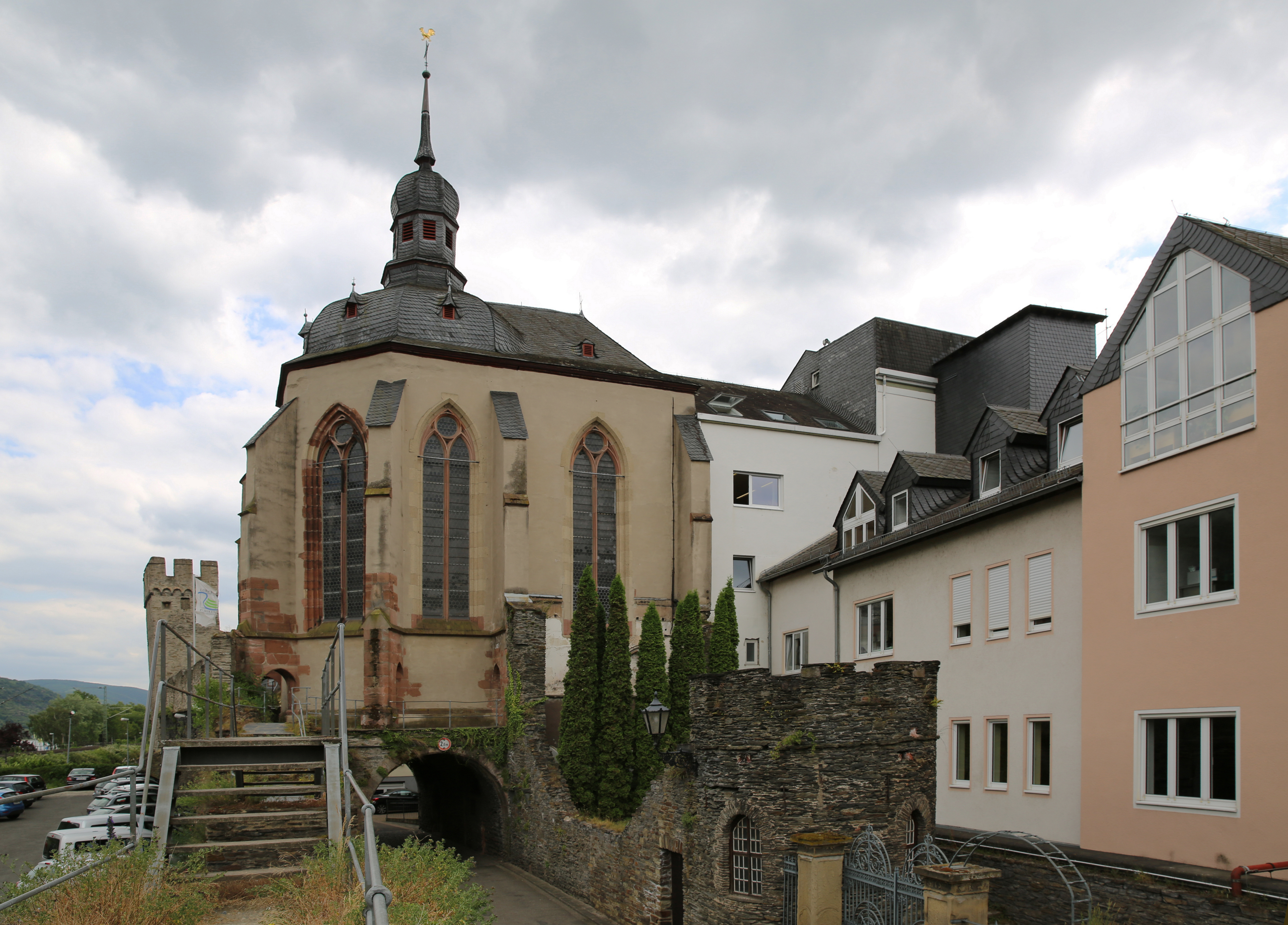 Old hospital chapel (1305) of Oberwesel, Germany